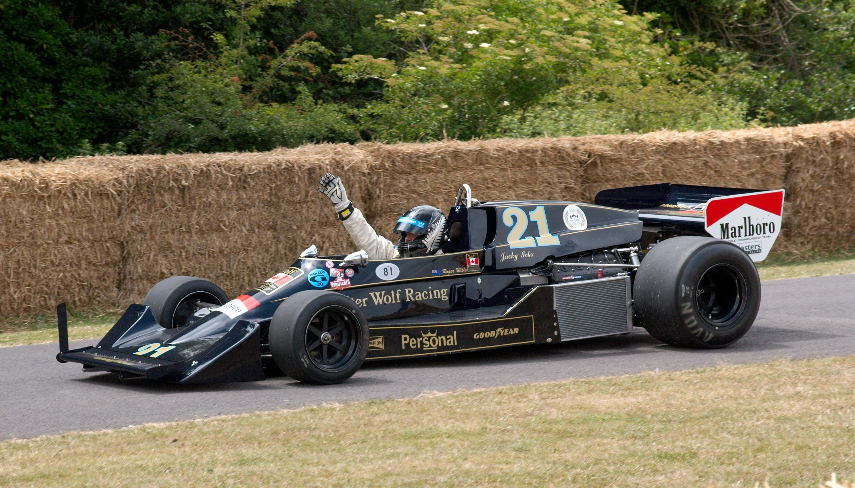 Rogers Wills waves to the crowd from the cockpit of his 1976-specification Wolf-Williams FW05 Formula One car, after setting Fastest Time of the Day during the 2010 Goodwood Festival of Speed.